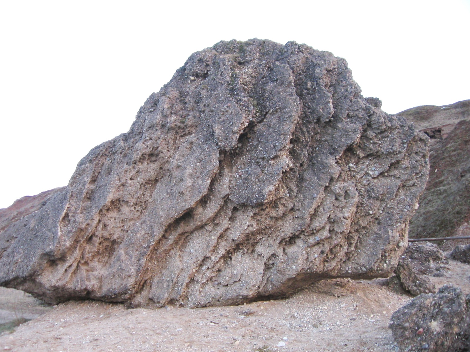 Šeimyniškiai conglomerate rock, Utena district, Lithuania